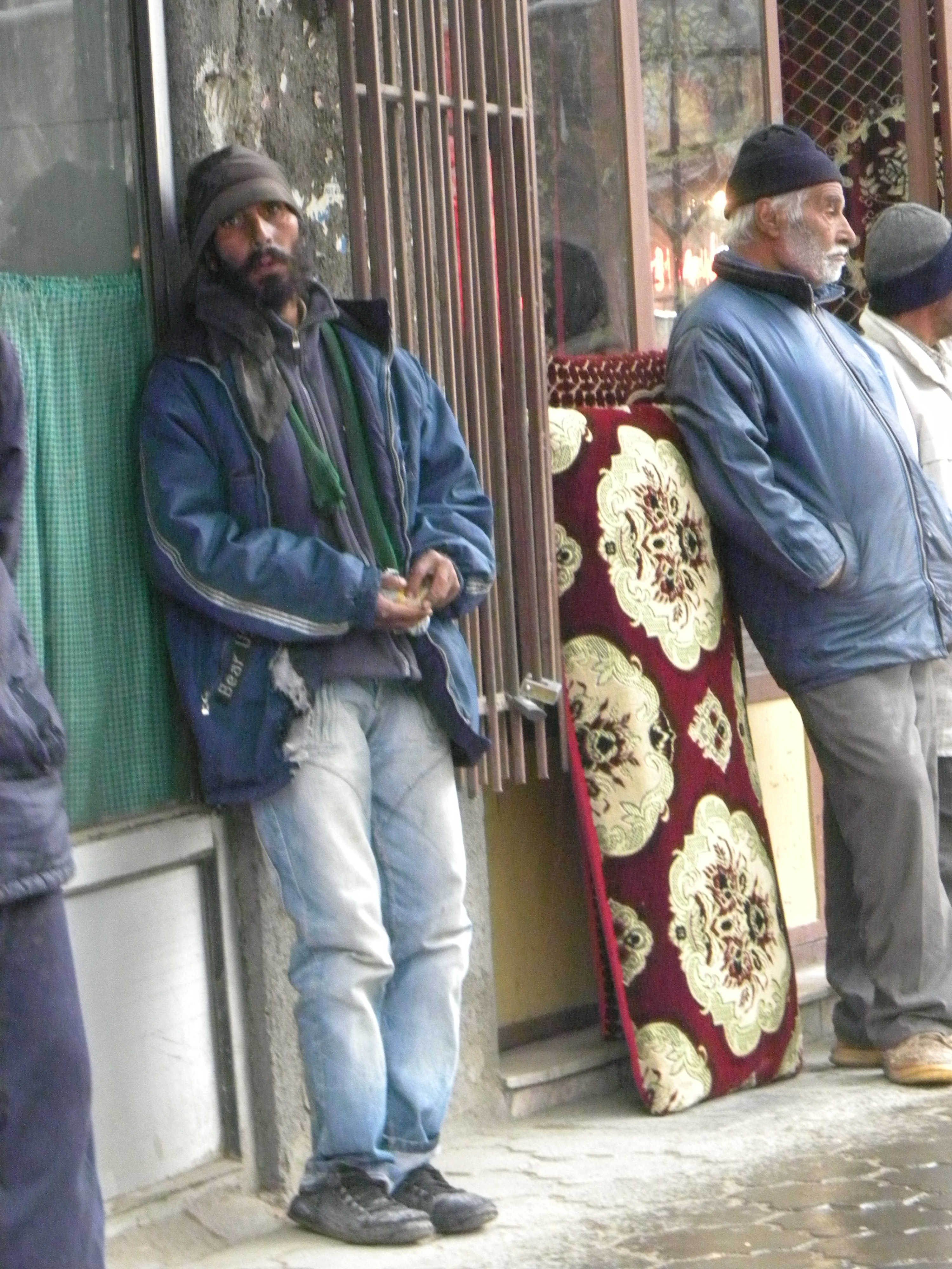 Homlesss men in Nishapur